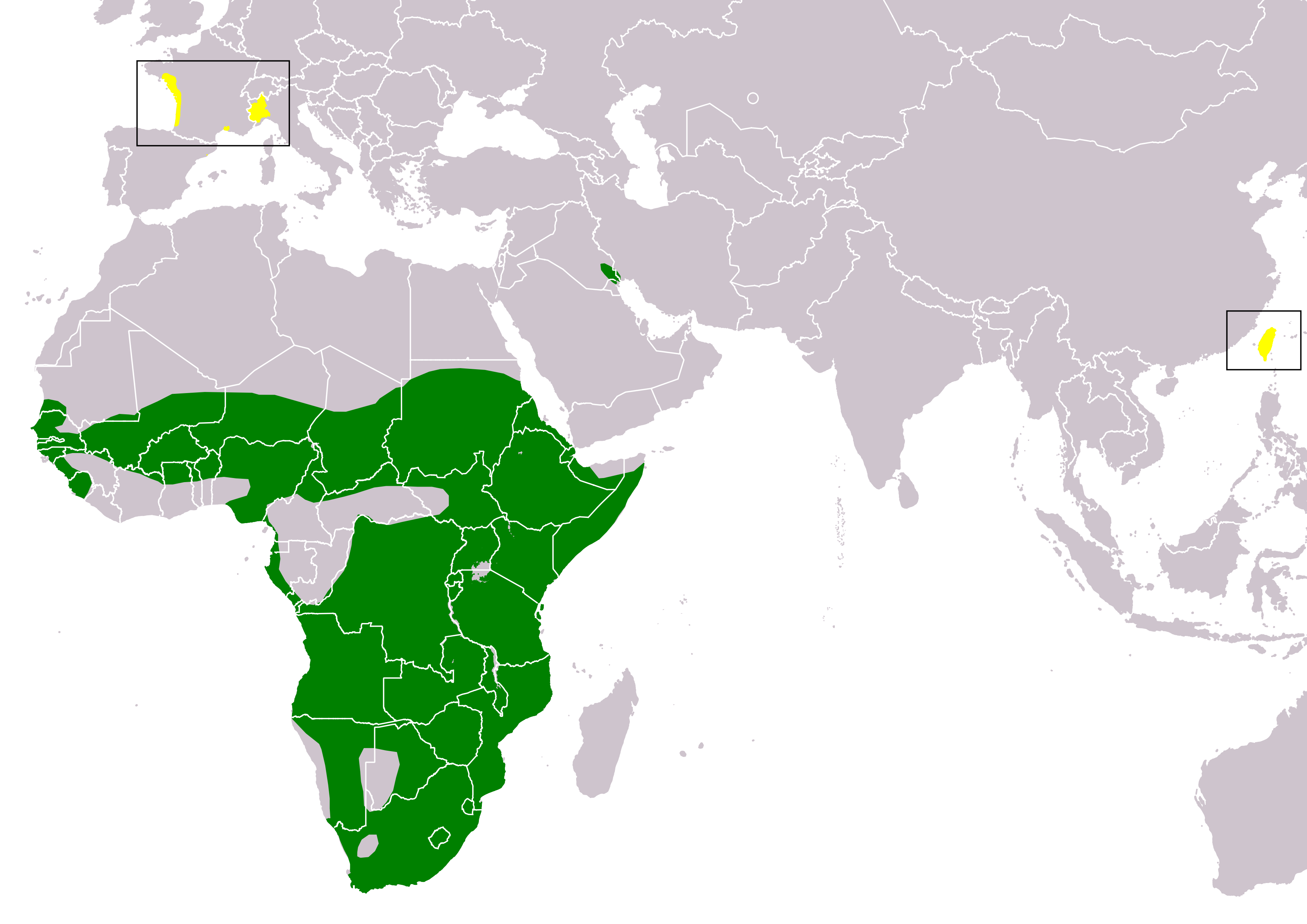 Distribution map of african sacred ibis (Threskiornis aethiopicus) according to IUCN version 2018.2 , Legend: Extant, resident (#008000), Extant & Introduced (resident) (#FFFF00)